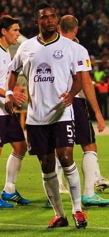 Samuel Eto'o